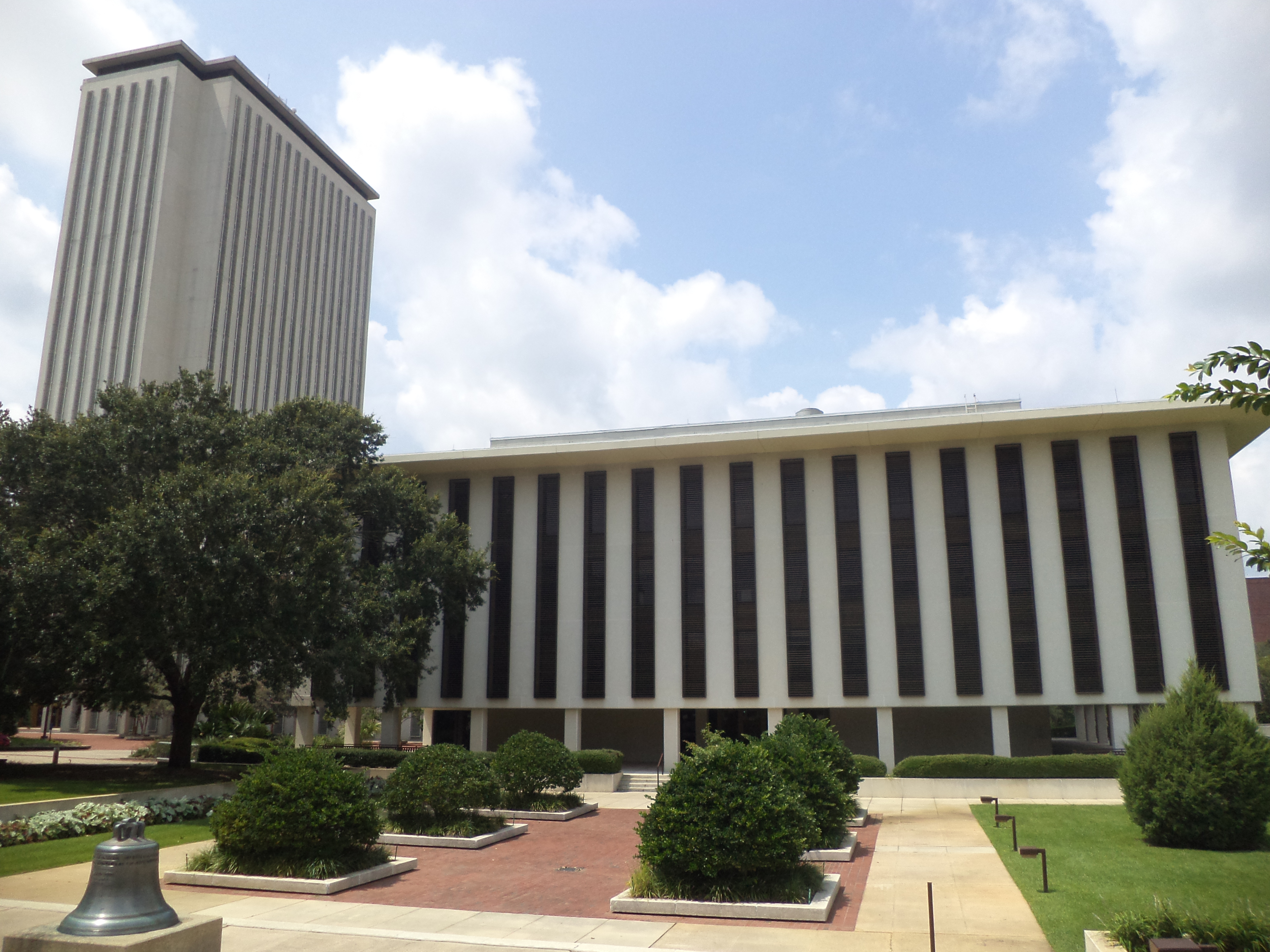 Florida State Capitol and Florida House Office. Tallahassee, Leon County, Florida